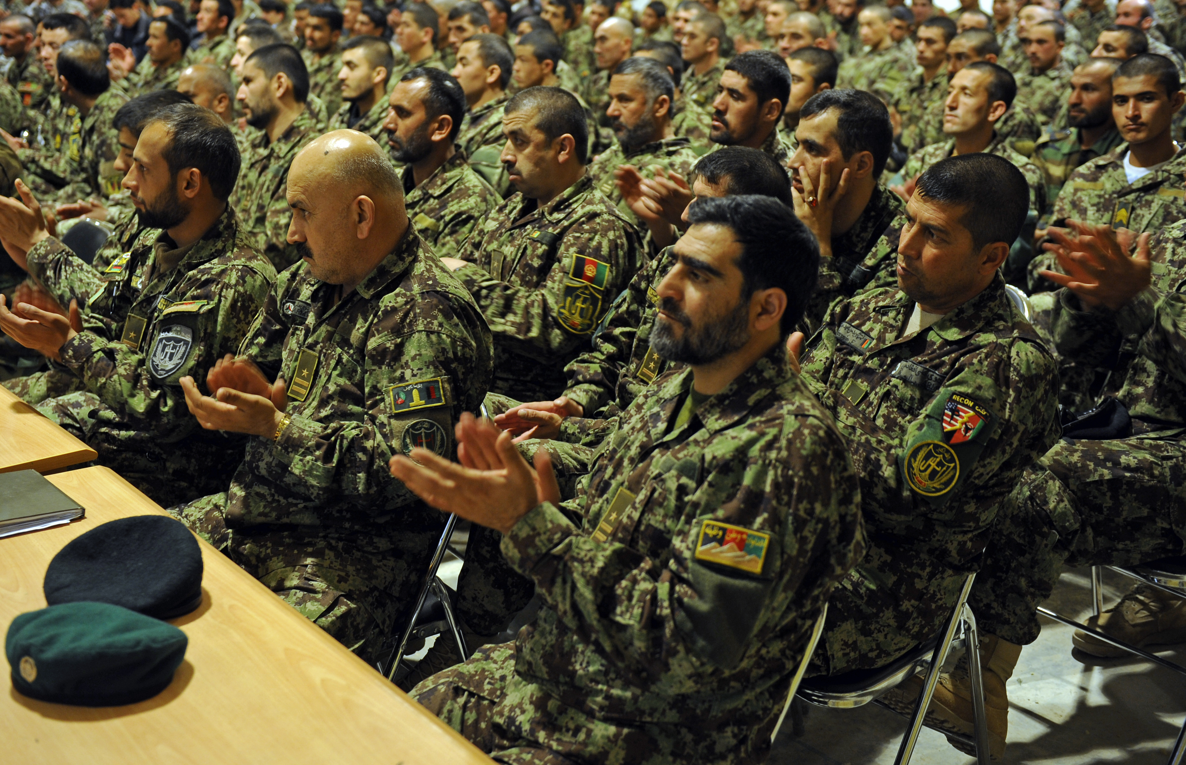 Afghan National Army Soldiers applaud during the 2nd Kandak's Transition to Independent Operations ceremony in Zabul Province Afghanistan, Feb. 27. (U.S. Air Force photo/Staff Sgt. Brian Ferguson)(Released)